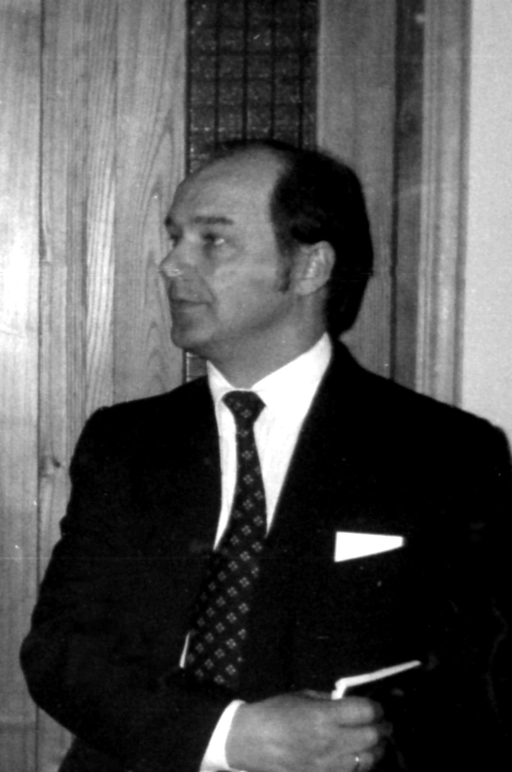 Mayor of Šiauliai district Vincas Girnius, Lithuania